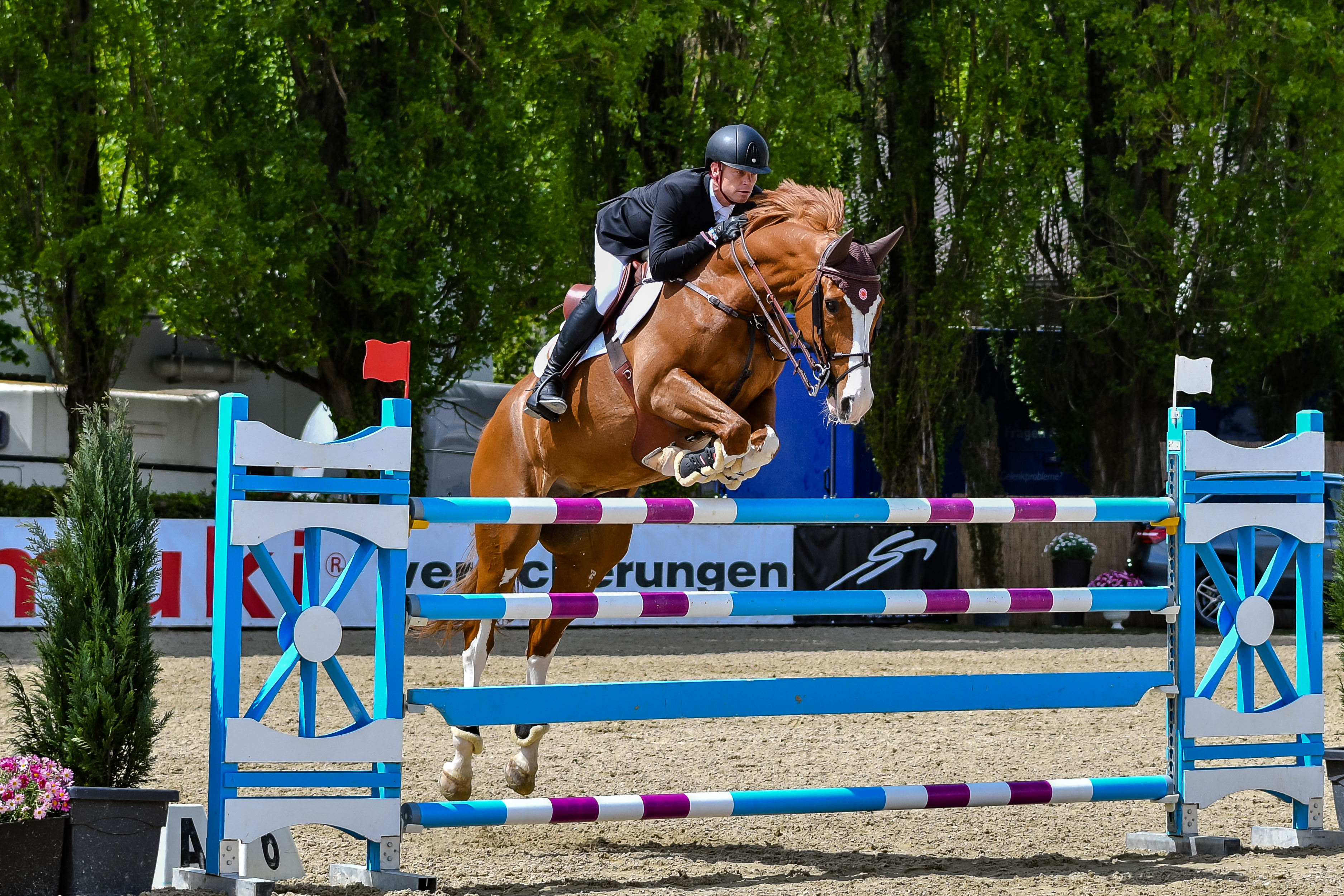 Linzer Pferdefestival / SILVER TOUR / May 4, 2017/ Int. jumping competition against the clock (1.40 m) / Table A, FEI Art. 238.2.1 - CSIO4* - 1 horse per athlete / Grand Cru van de Rozenberg, Jerome Guery (BEL)